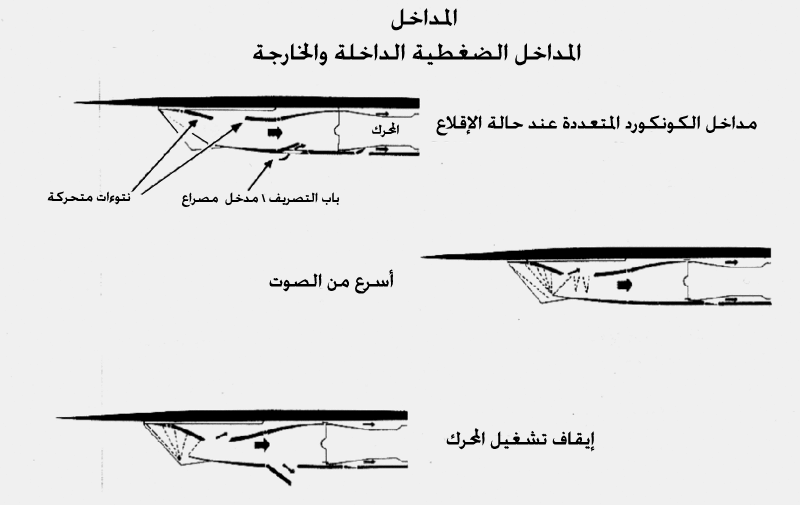 Concorde intake operating modes